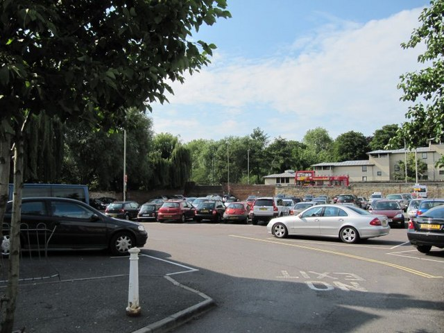 Car park off Park End This car park is between Park End Street and Hythe Bridge Street in Oxford, England. The Oxford Canal ends over in the trees in the distance. The buildings in the distance are part of Worcester College. This used to be the Basin at the end of the canal.